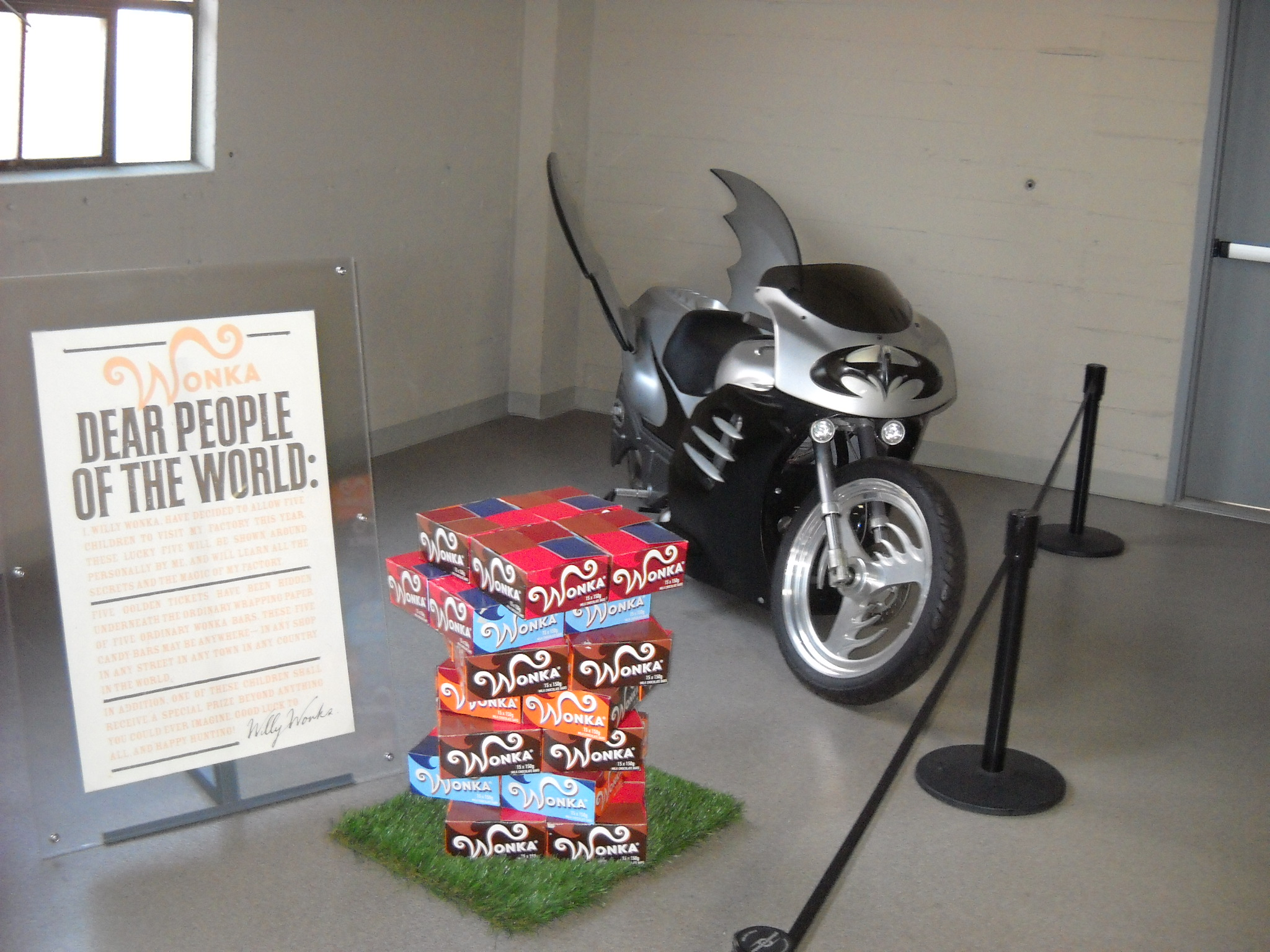 Warner Bros. Studios, Burbank, California, USA.